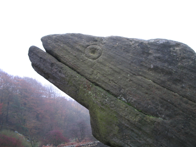 Toad's Mouth. A natural boulder amended (in neolithic times??) by the addition of carvings to resemble a toad